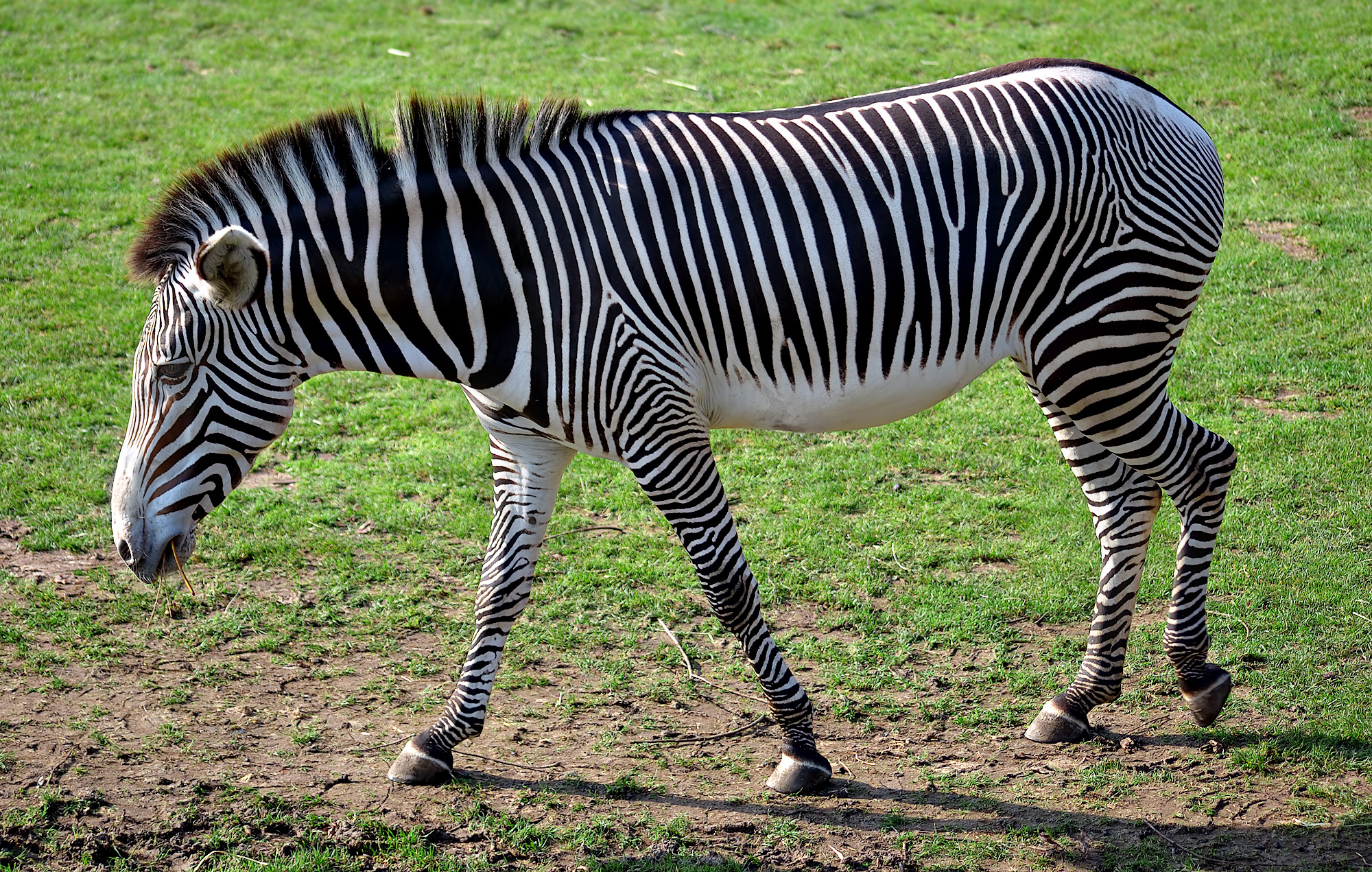 This image shows a Grevy's Zebra (Equus grevyi).